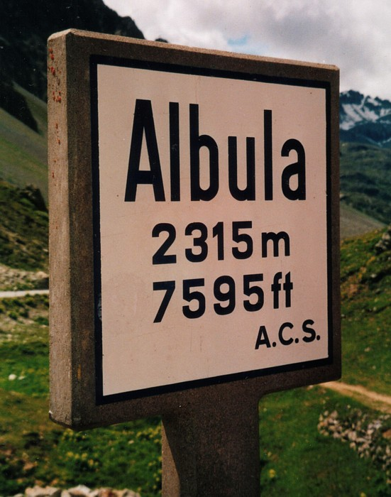 Albula pass in Switzerland